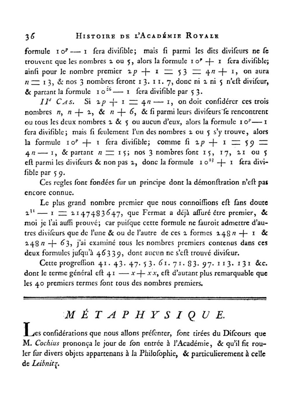 Extrait d'une lettre de M. Euler le Pere à M. Bernoulli, concernant le Mémoire imprimé parmi ceux de 1771